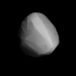 3D convex shape model of 502 Sigune, computed using light curve inversion techniques. J. Hanuš, J. Ďurech, M. Brož, B. D. Warner (June 2011). "A study of asteroid pole-latitude distribution based on an extended set of shape models derived by the lightcurve inversion method". Astronomy and Astrophysics 530: A134. ISSN 0004-6361. arXiv